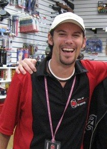 Joey Cramer